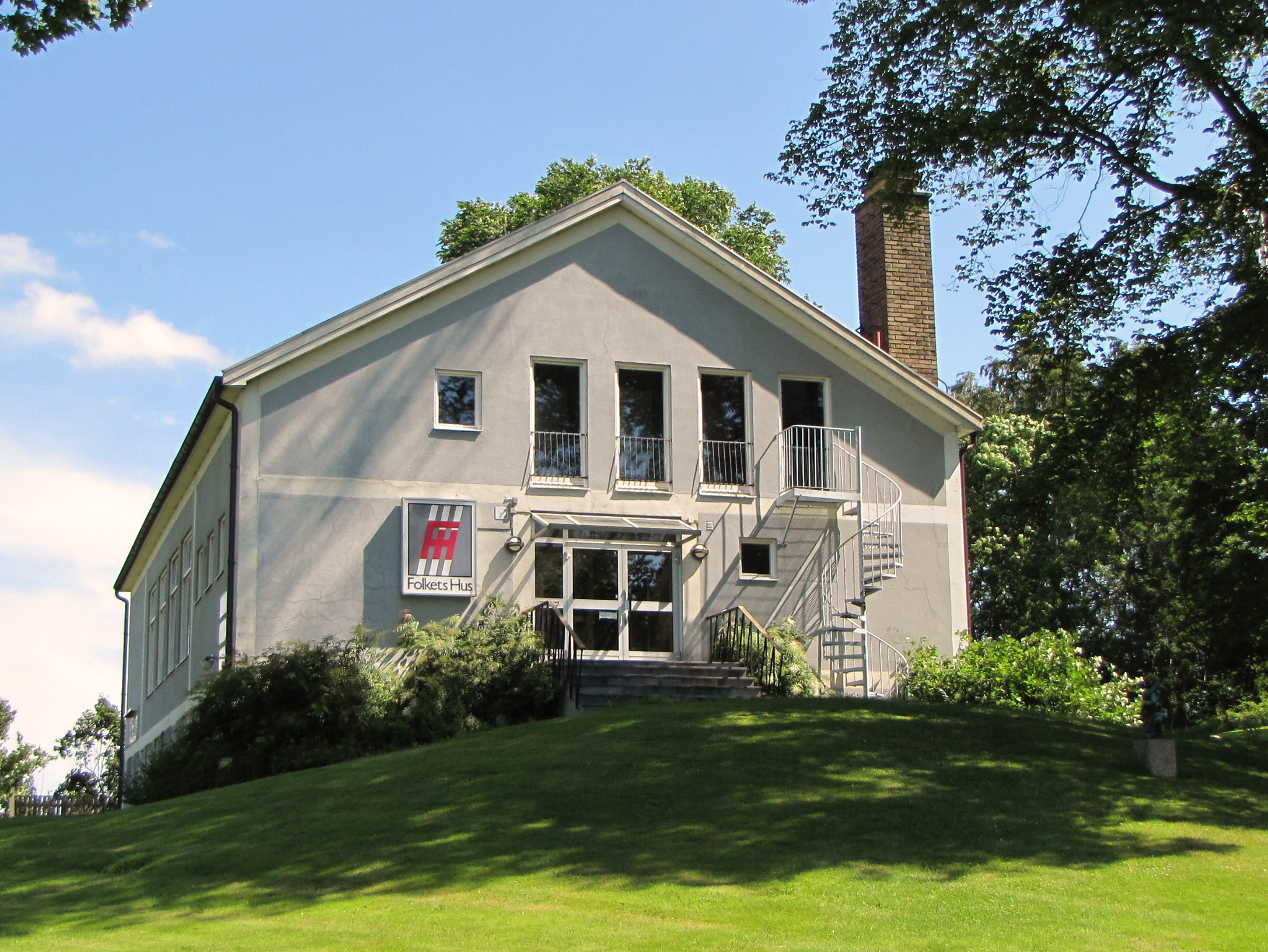 Fräntorps Peoples House Gothenburg